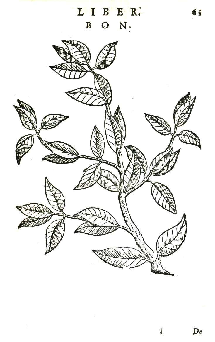 Arbor Bon - apparently a depiction of Coffea arabica.